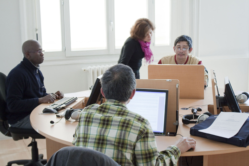 Multimedia classroom